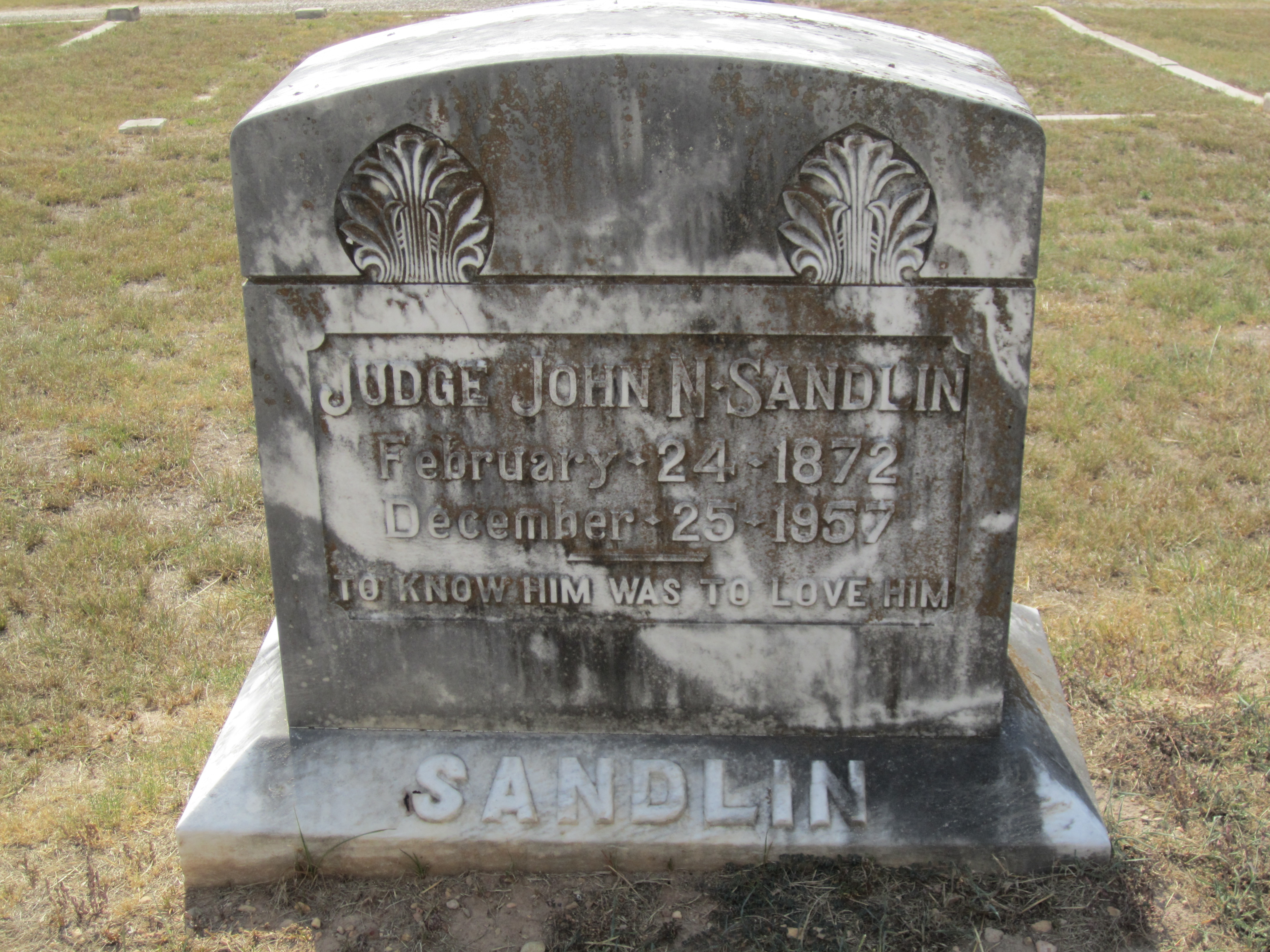 I took photo of Rep. John Sandlin tombstone in Minden Cemetery in Minden, LA, with Canon camera.